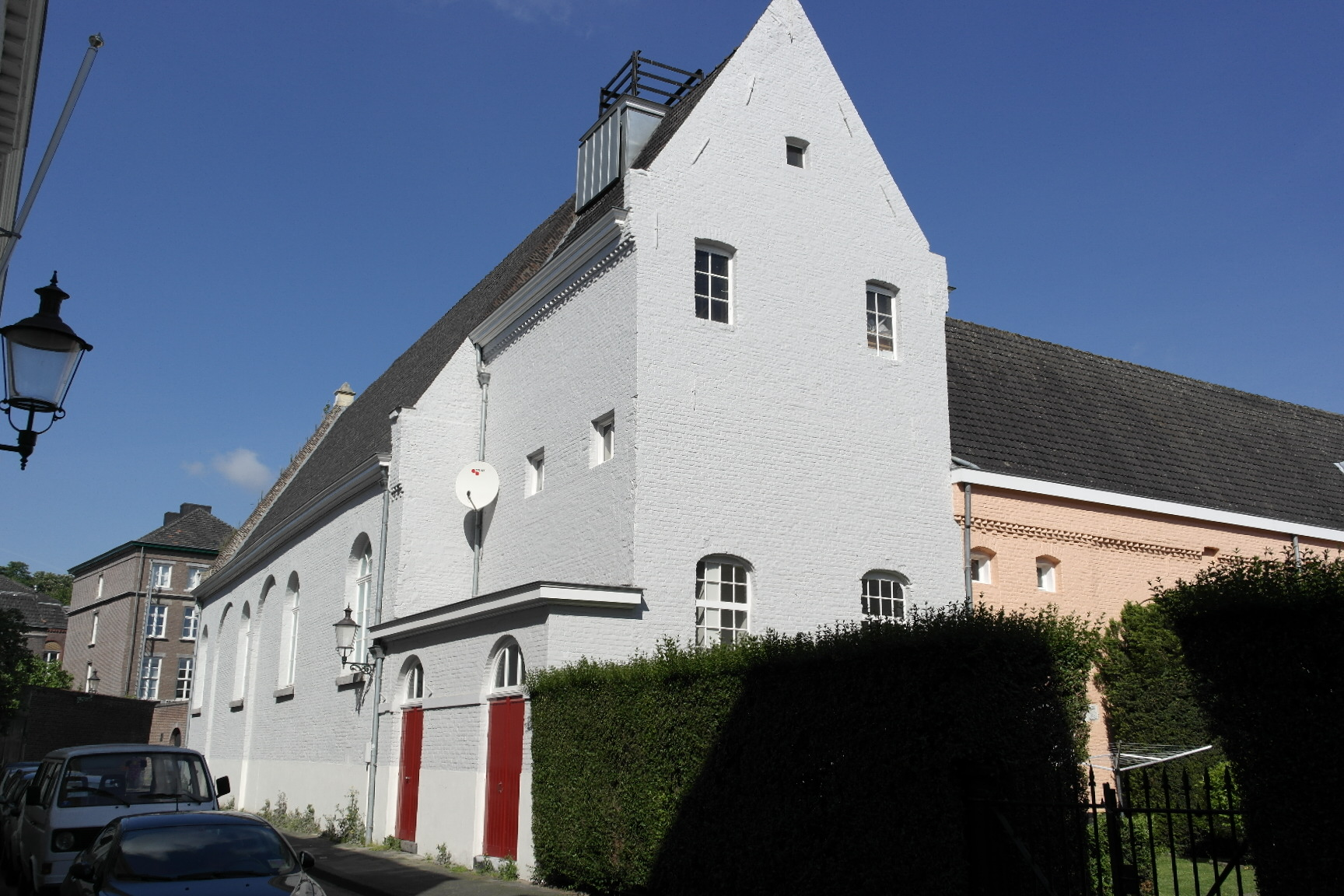 Maastricht, the Netherlands. View from the southeast of the former Capuchin Church and monastery in the central neighbourhood of Statenkwartier.